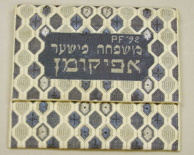 Description: Afikoman bag Creator: Pauline Fischer Medium: colored thread Date: 1992 Persistent URL: Repository: Yeshiva University Museum, 15 West 16th Street, New York, NY 10011 Accession Number: 1996.397 Rights Information: No known copyright restrictions; may be subject to third party rights. For more copyright information, click here. See more information about this image and others at CJH Museum Collections.